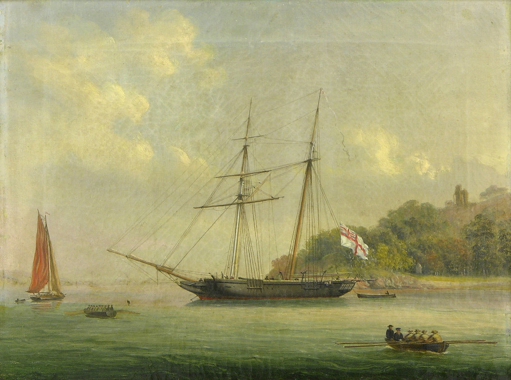 Inscription: H.M.S. Pandora T.L. Hornbrook PINX FEB. 17 1851